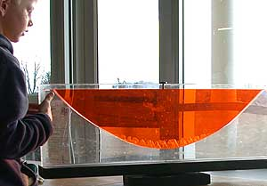 Parabolic shape formed by a liquid surface under rotation. Two liquids are held between two vertical plexiglass sheets, with a slit in between. This narrow container is rotated around the center axis. The denser colorless liquid is being moved outwards by the centrifugal force while the lighter red liquid remains in the center. Taken at the Little Shop of Physics at the Lory Student Center, Colorado State University, February 26, 2005.